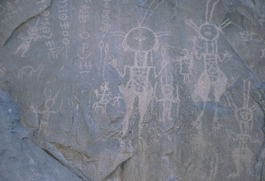 Warrior figures and Libyan-Berber inscriptions.